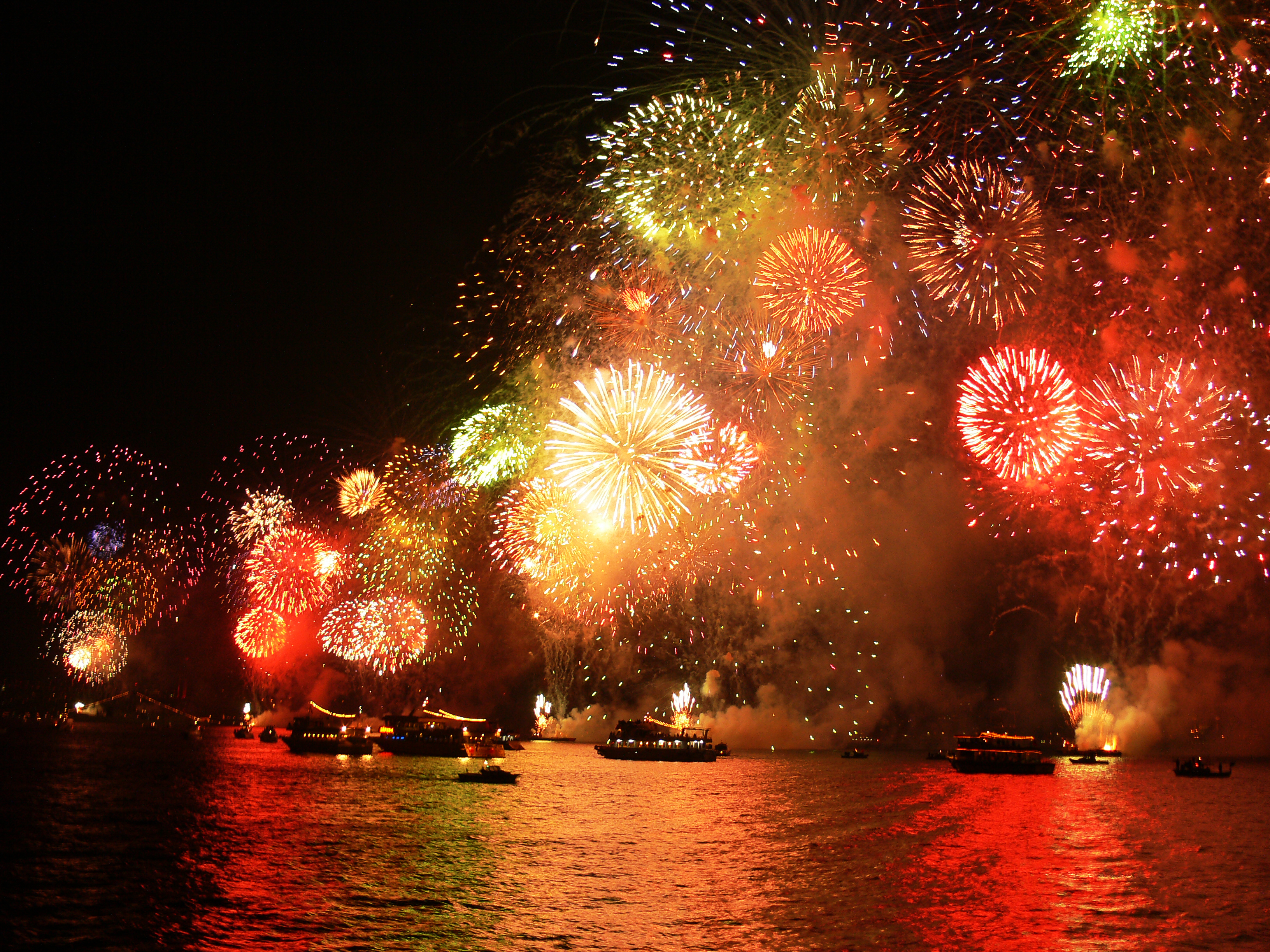 2007 Republic Day Celebrations on the Bosporus (Istanbul, Turkey)Ирон: Турк бæрæг кæнынц Республикæйы бон Босфоры доныл. 2007-æм аз